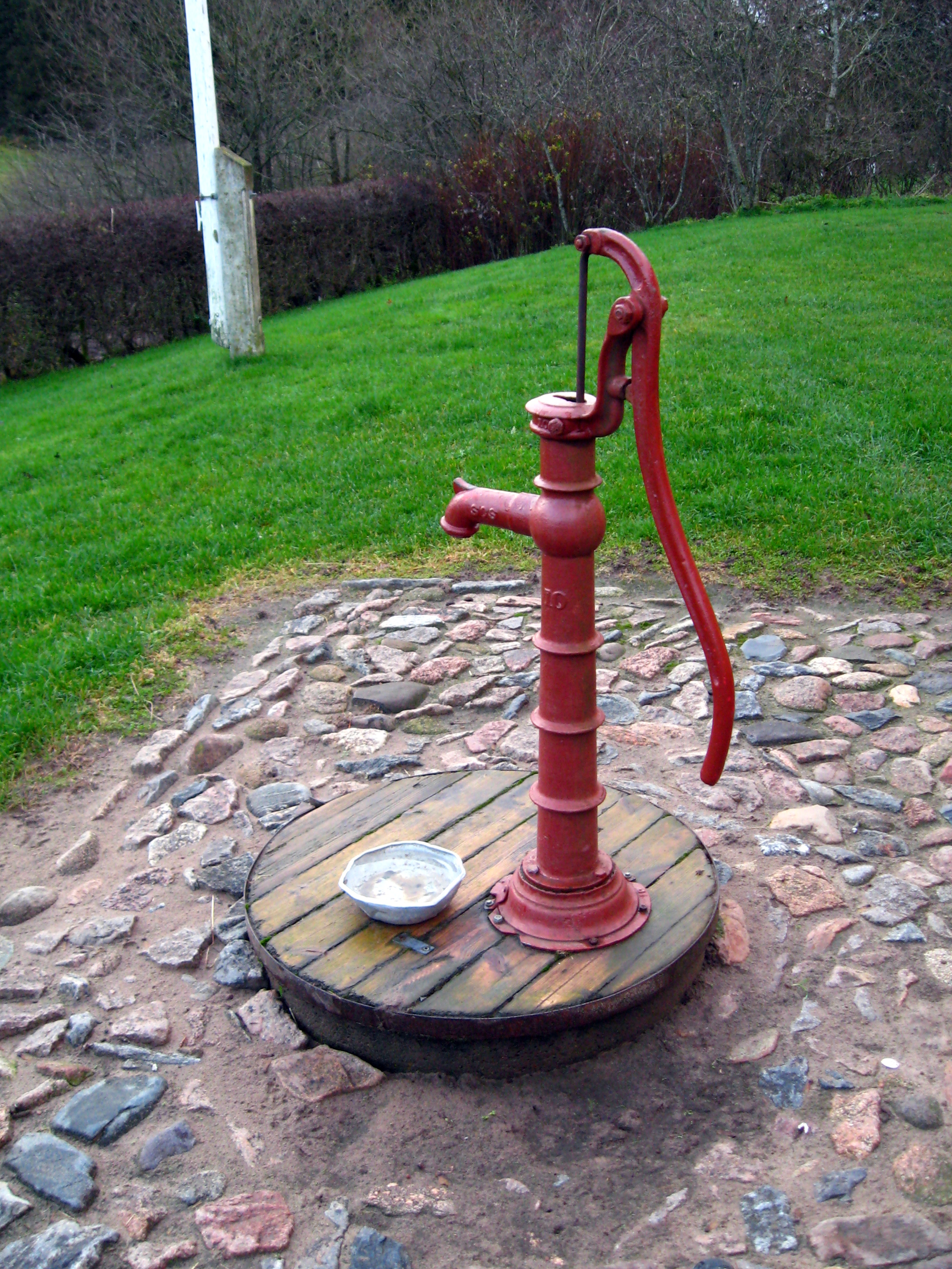 A hand water pump